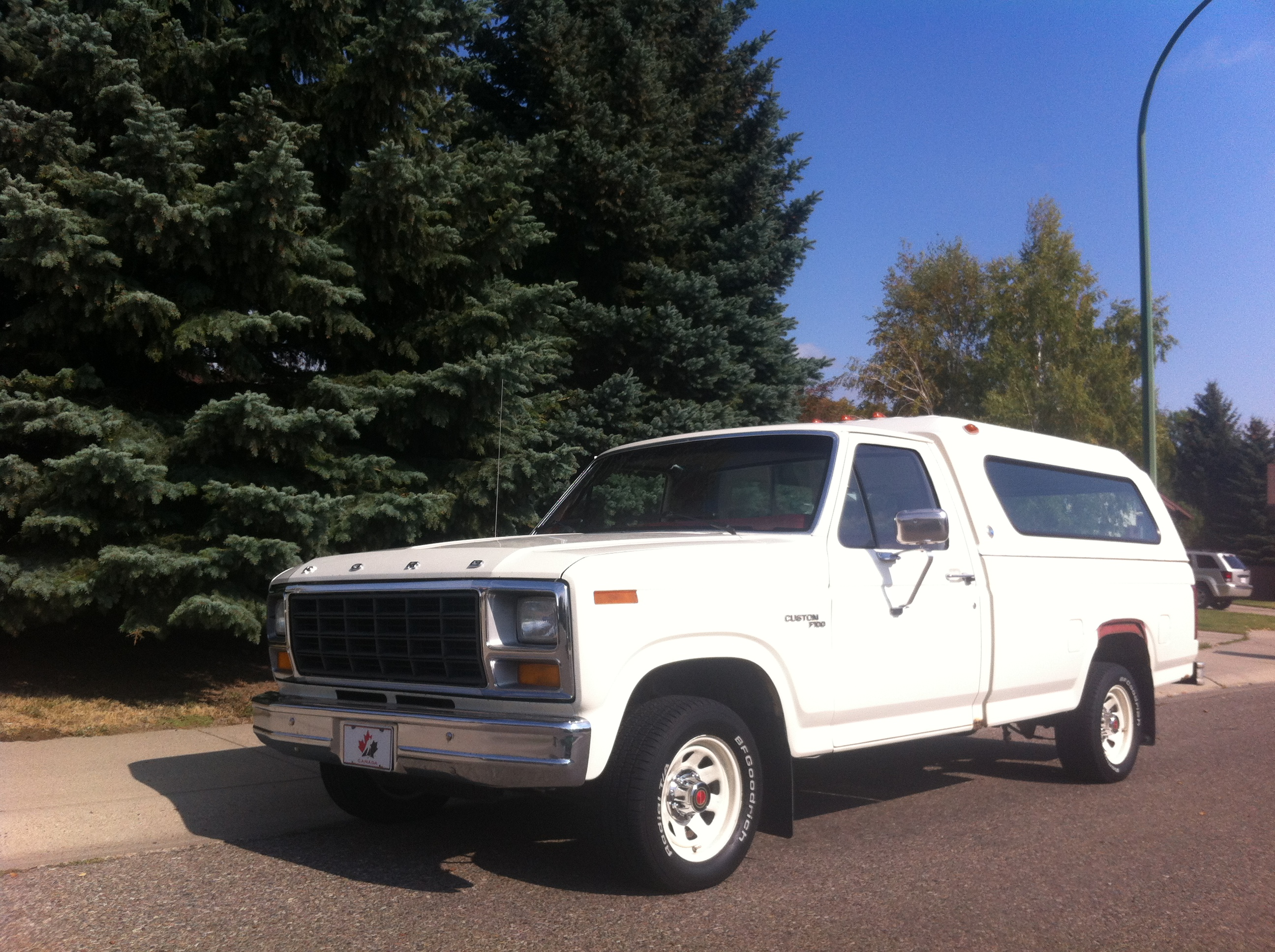 1980 Ford Custom F100